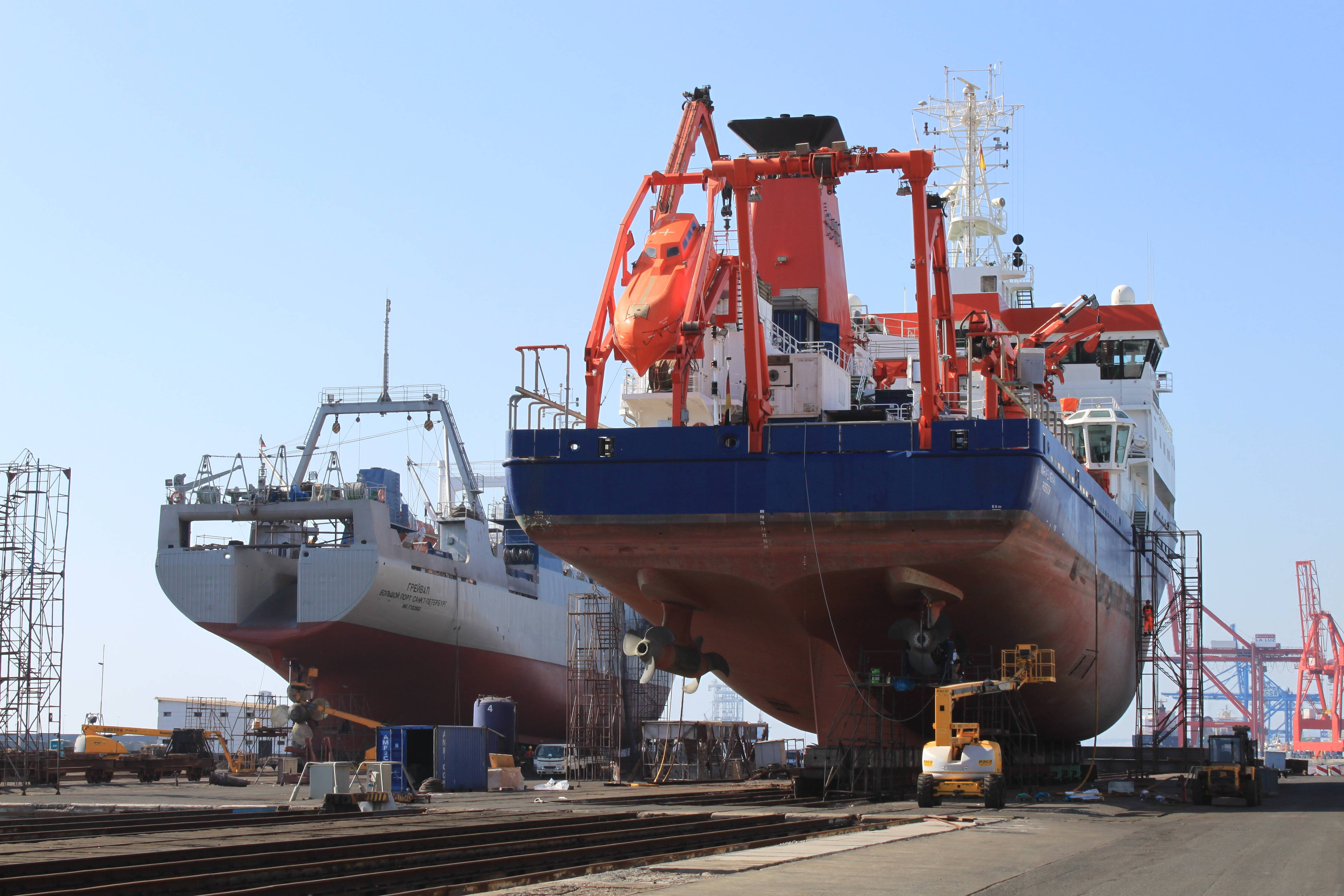 RV Maria S. Merian in the shipyard in Las Palmas/GC